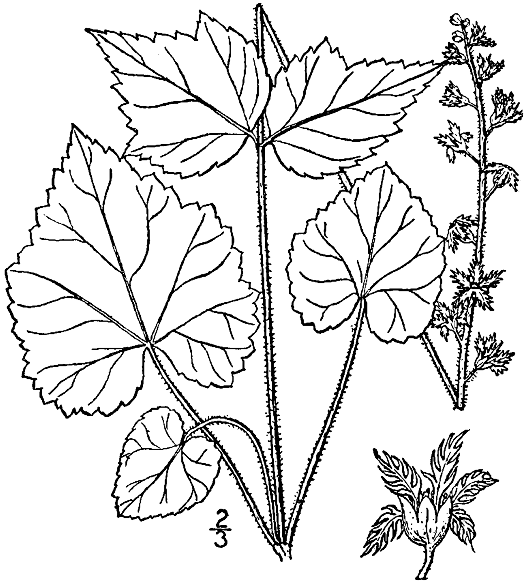 Mitella diphylla L. (twoleaf miterwort)